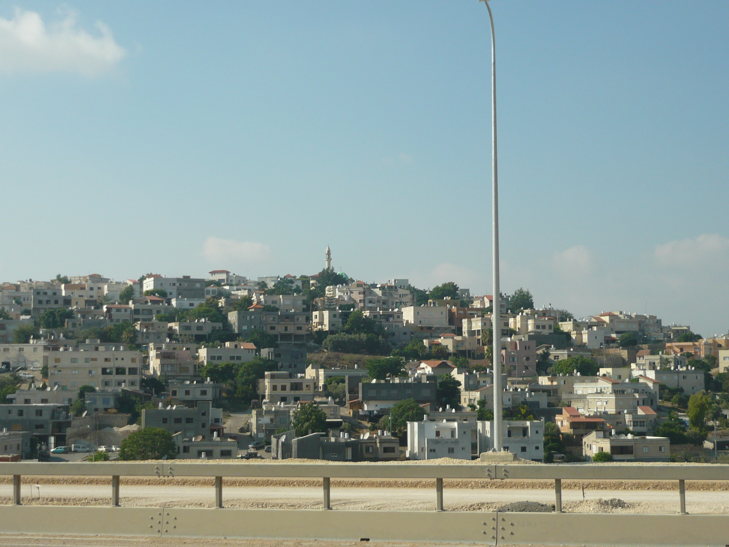 bir El Maksur ביר אל מכסור